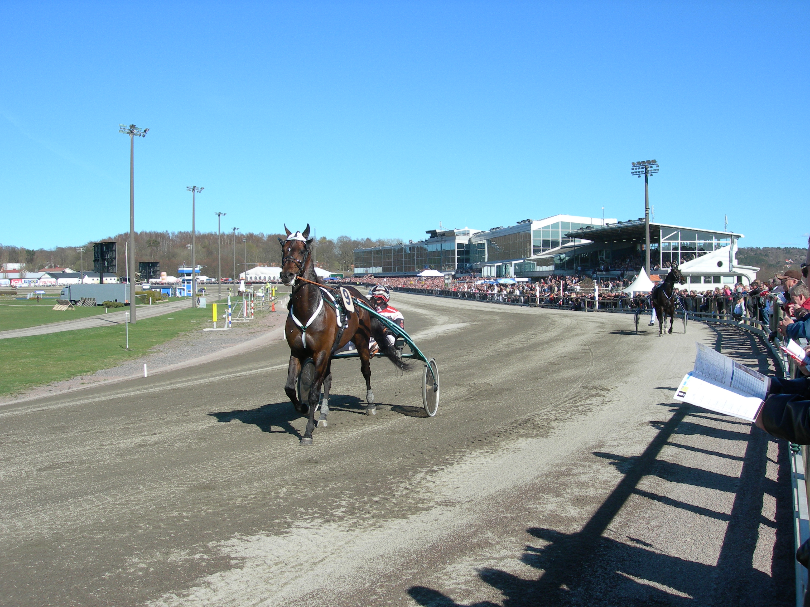 Åbytravet in Mölndal, Sweden.